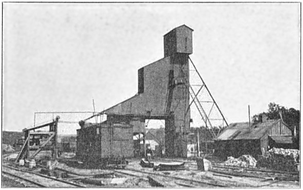 Original caption: "Figure 56. Steel tipple, showing box car loader. Shaft No. 10, Consolidation Coal Company, Buxton." See en: Consolidation Coal Company (Iowa).